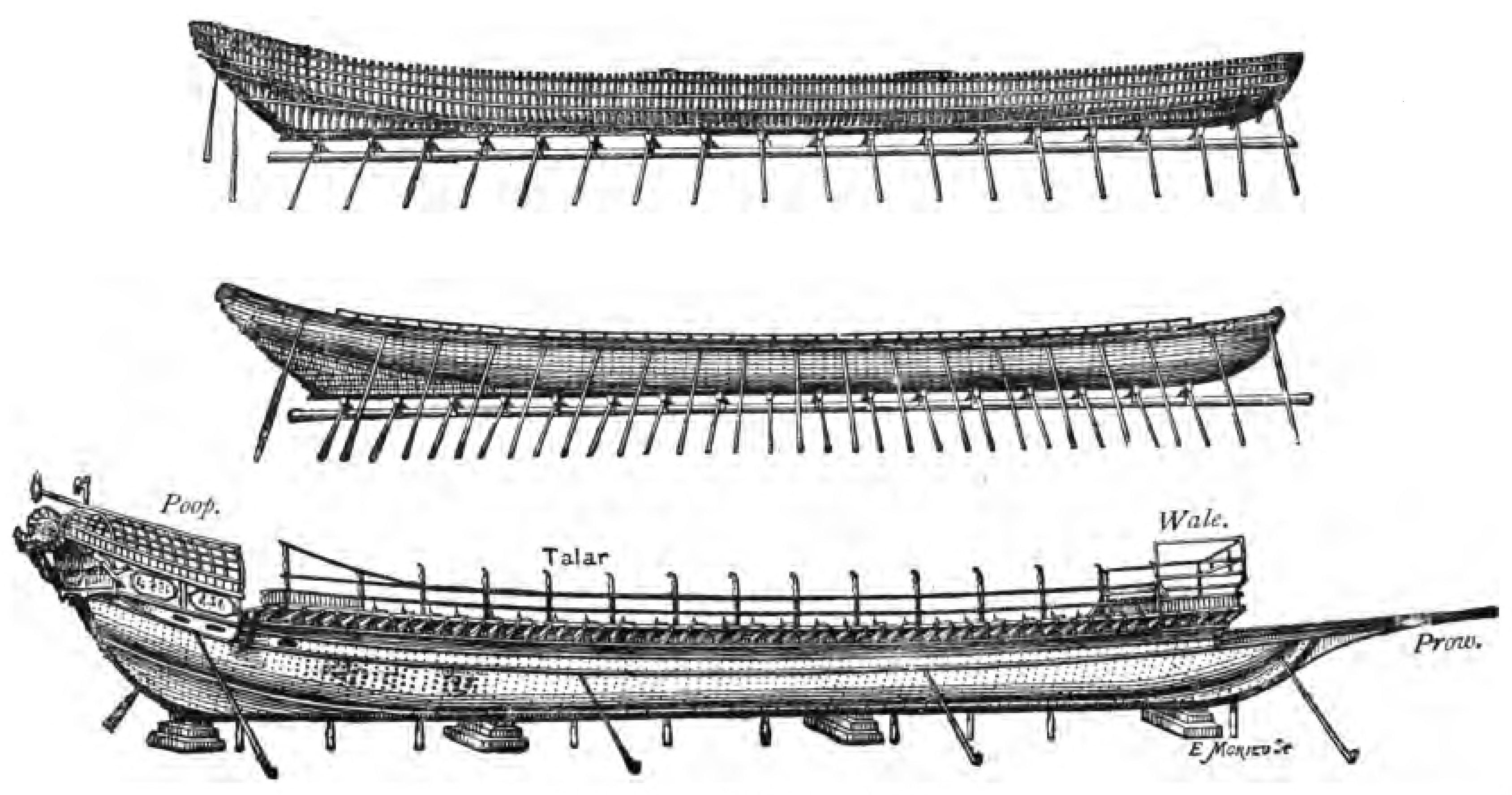 Illustration of the stages in building a galley, found in The Story of the Barbary Corsairs' by Stanley Lane-Poole, published in 1890 by G.P. Putnam's Sons.